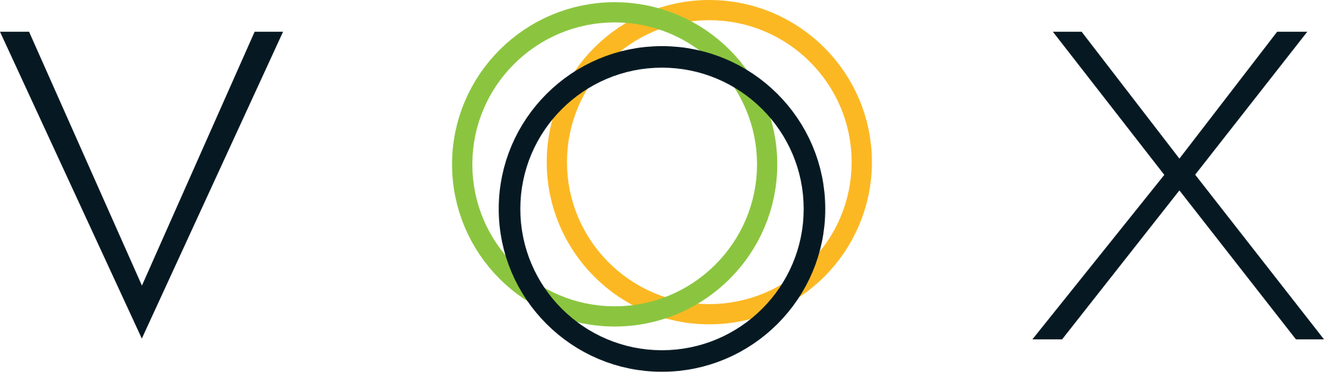 Logo of Vox